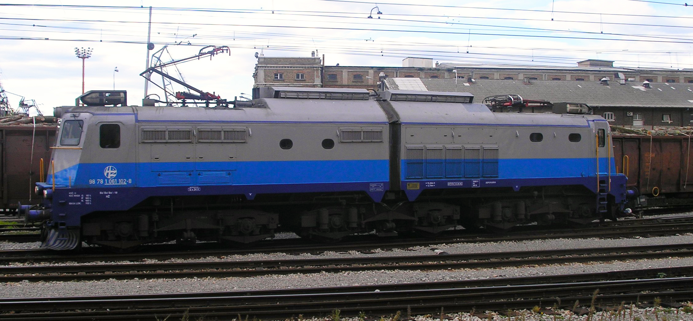 1061 series locomotive in Rijeka, Croatia